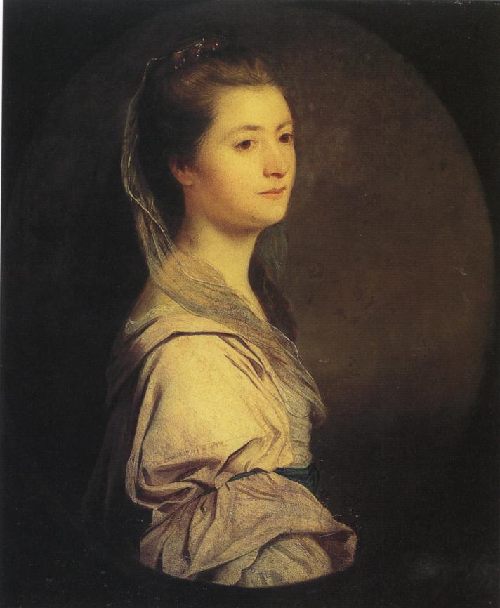 Portrait of Mrs. Catherine Plaistow Trapaud, wife of British Colonel Cyrus Trapaud, by Sir Joshua Reynolds. She was the daughter of General Plaistow and married Colonel Cyrus Trapaud in 1751.